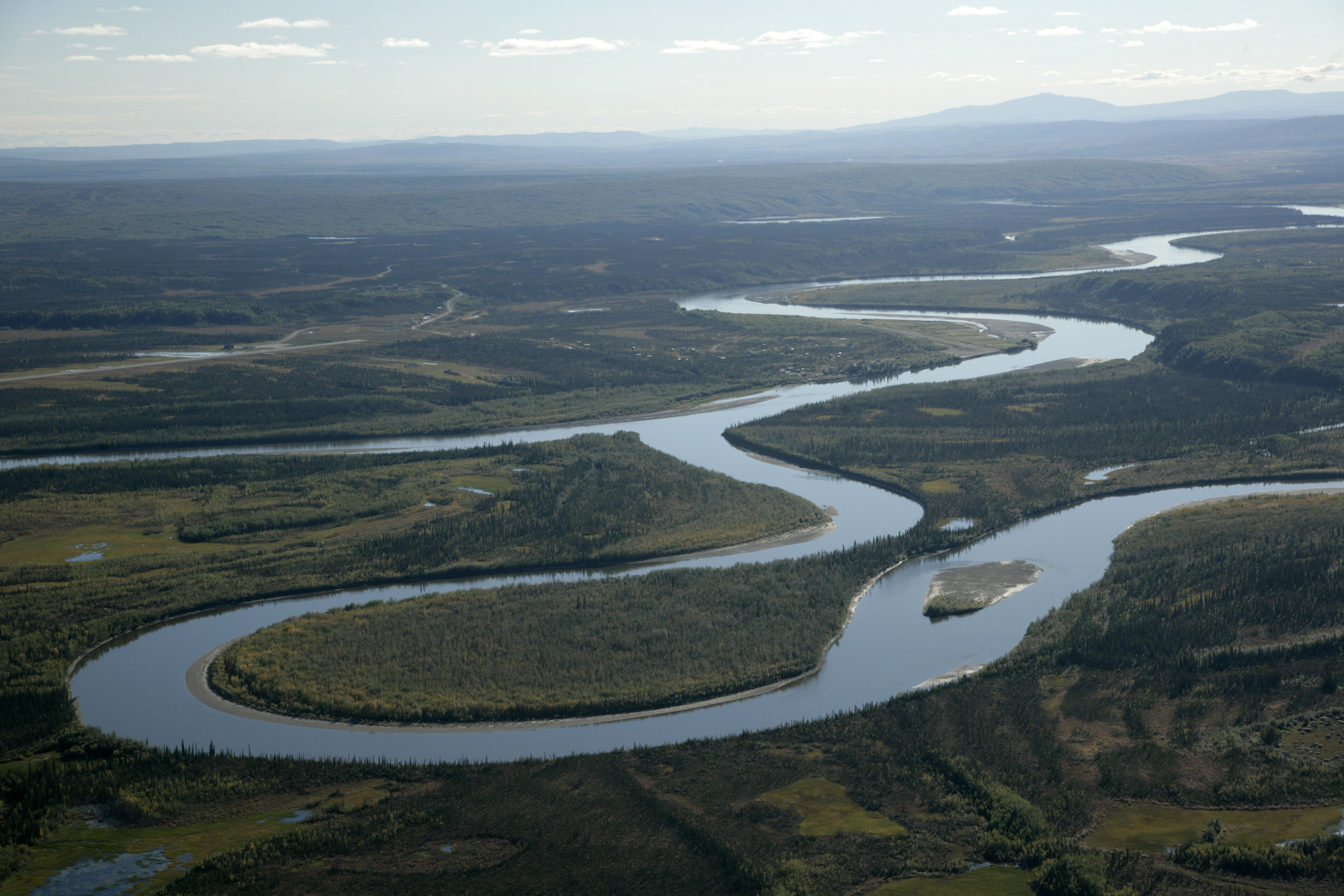 The confluence of the Alatna and Koyukuk Rivers in August, 2006.